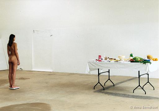 In Not Scared Anna stands on a bathroom scale. On a table is a kitchen scale and large quantities of food, labelled with information about the calorie content. The public participates by selecting food, weighing it, calculating the number of calories it contains, and then feeding it to her. Finally, the public fills out a form, hanging on the wall. The form has five columns that the public are expected to fill out. Food, Weight – Food, Calories, Time, Weight - Anna.